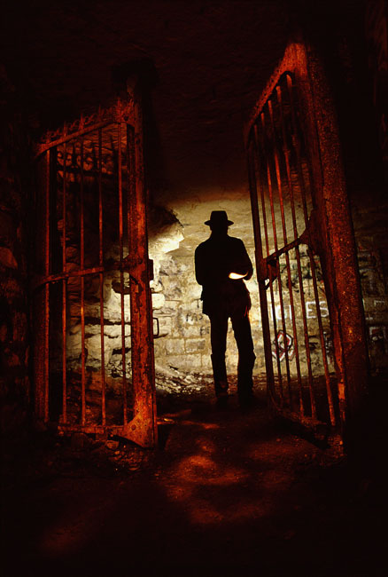 Paris Catacombs - the "Radio Room" 25m under the Val-de-Grâce hospital